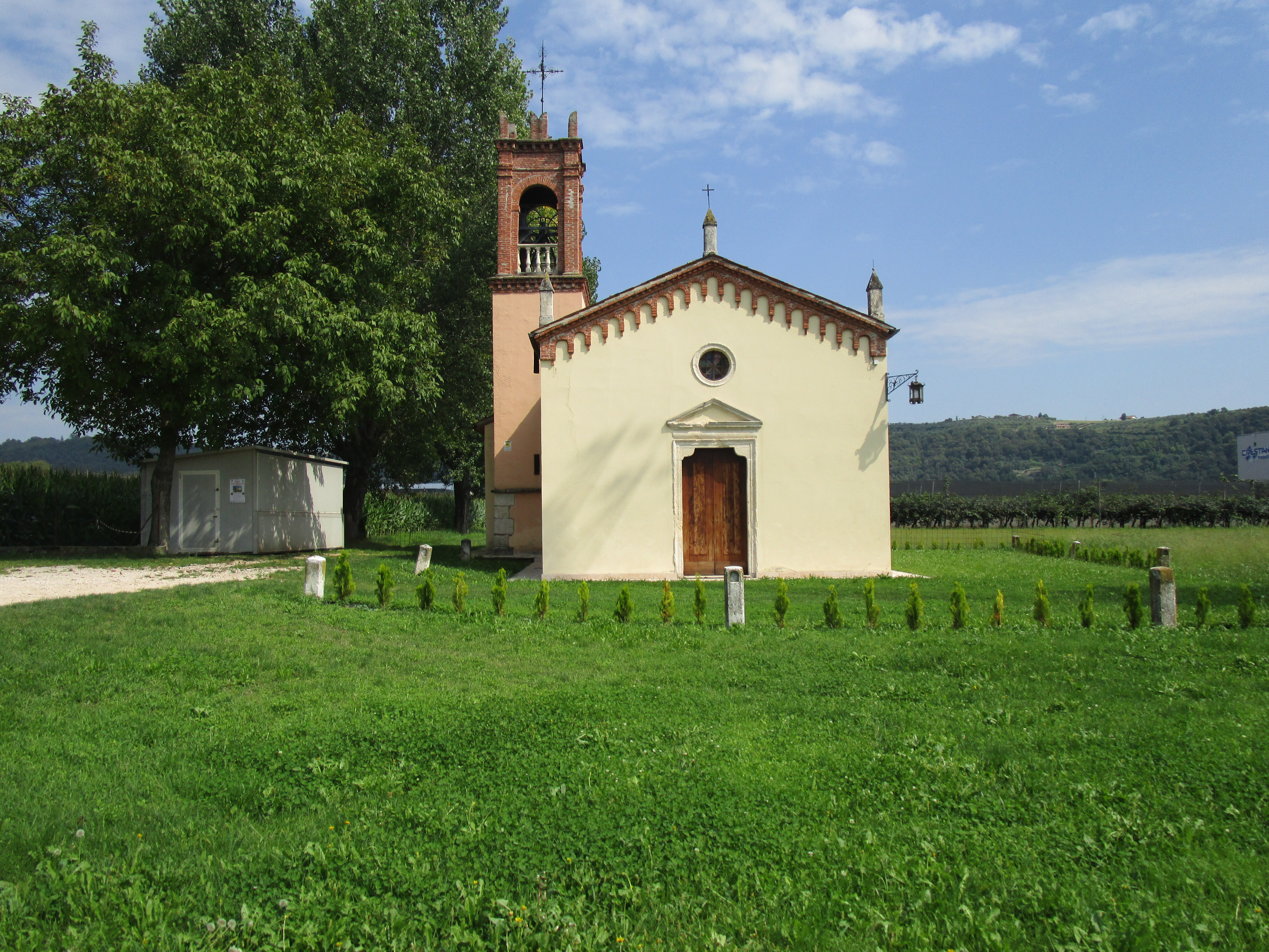 Chiesetta S. Rocco a Trissino.